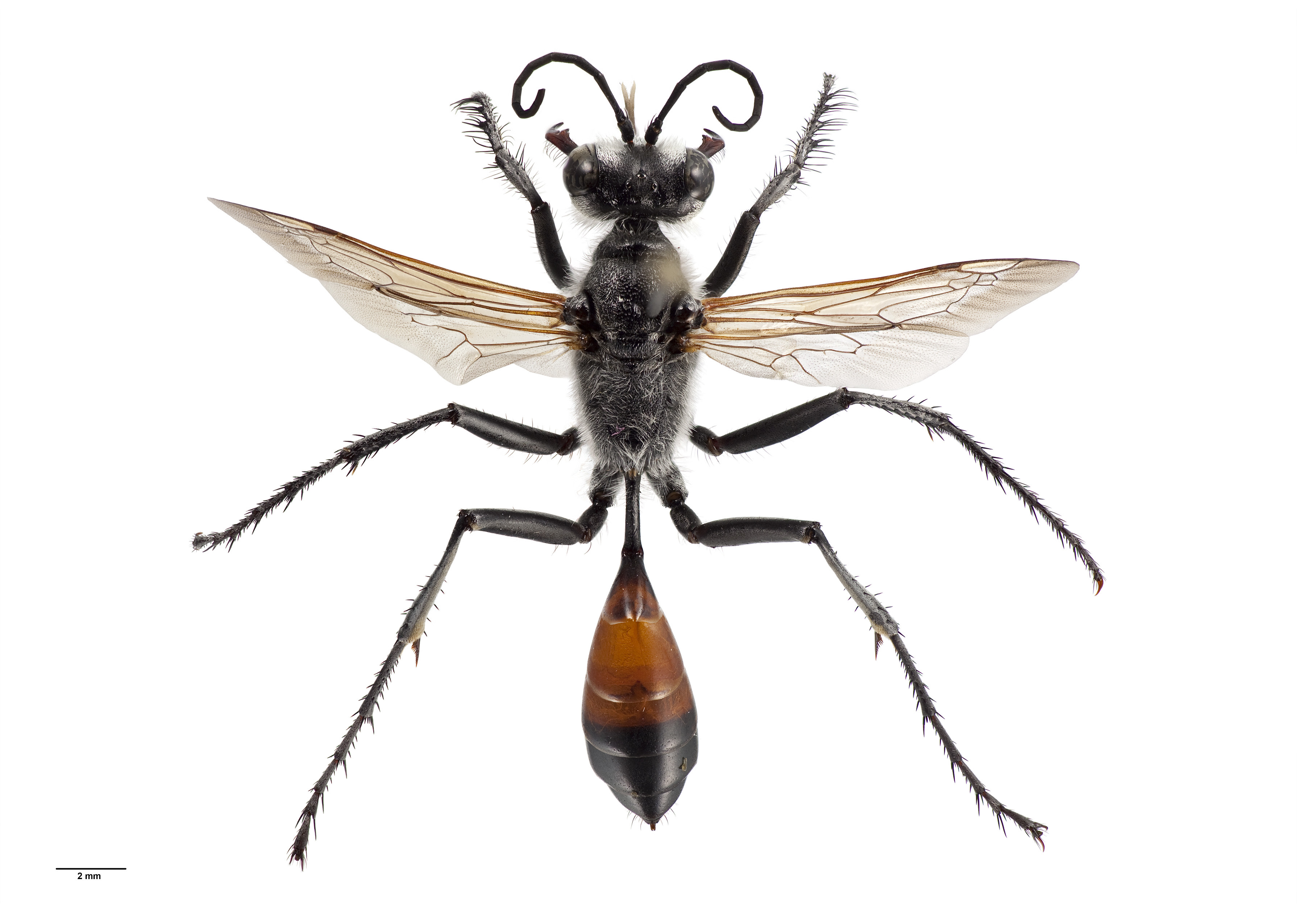 Specimen of Podalonia tydei (Le Guillou, 1841) held at the Auckland War Memorial Museum